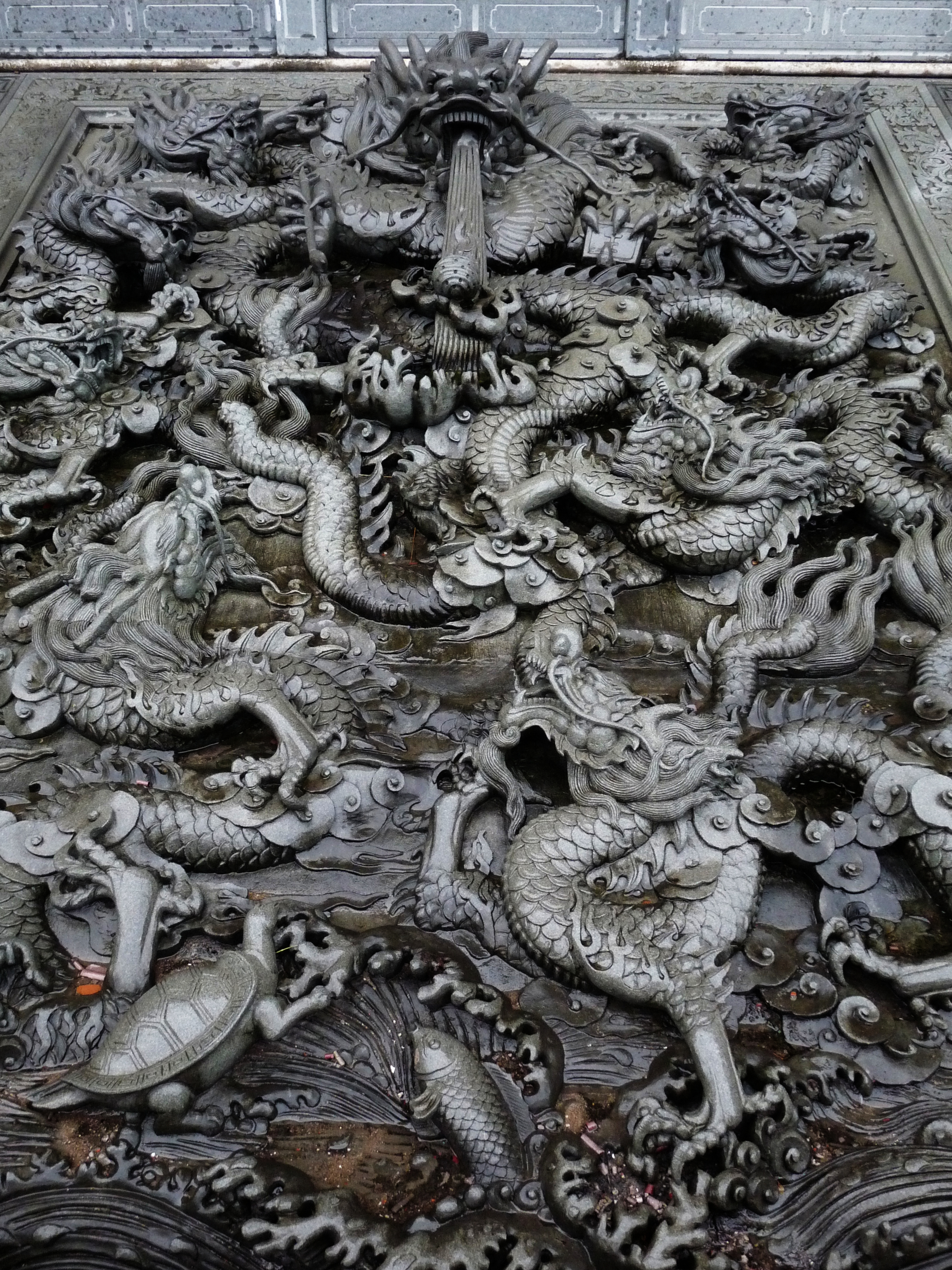 Qishan Wanfo Temple (Qishan Ten Thousand Buddhas Monastery) at Fuzhou, Fujian Province, China 旗山萬佛寺, 福州, 福建, 中國 旗山万佛寺, 福州, 福建, 中国